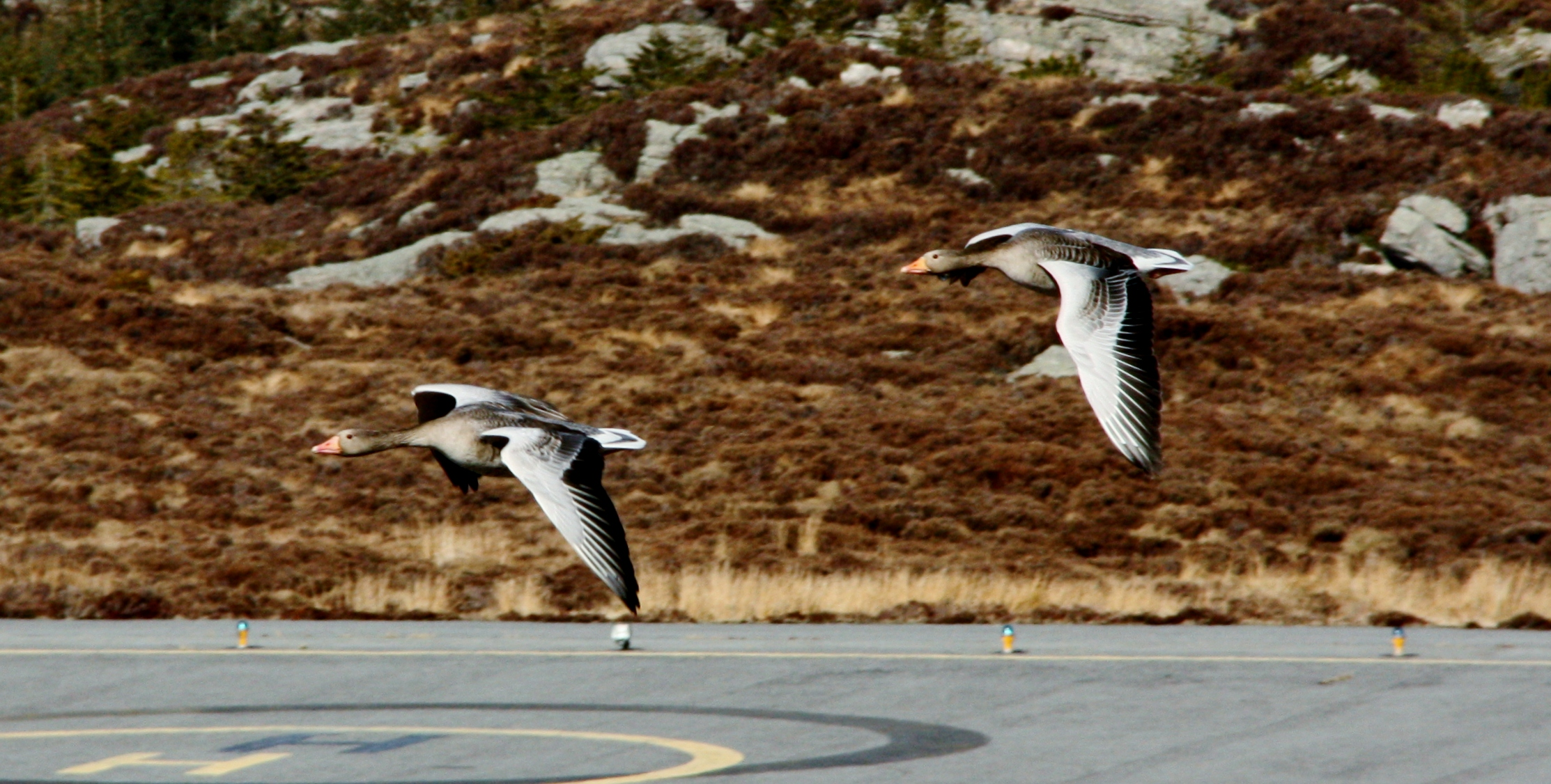 Greylag geese in flight at Fedje, Norway.